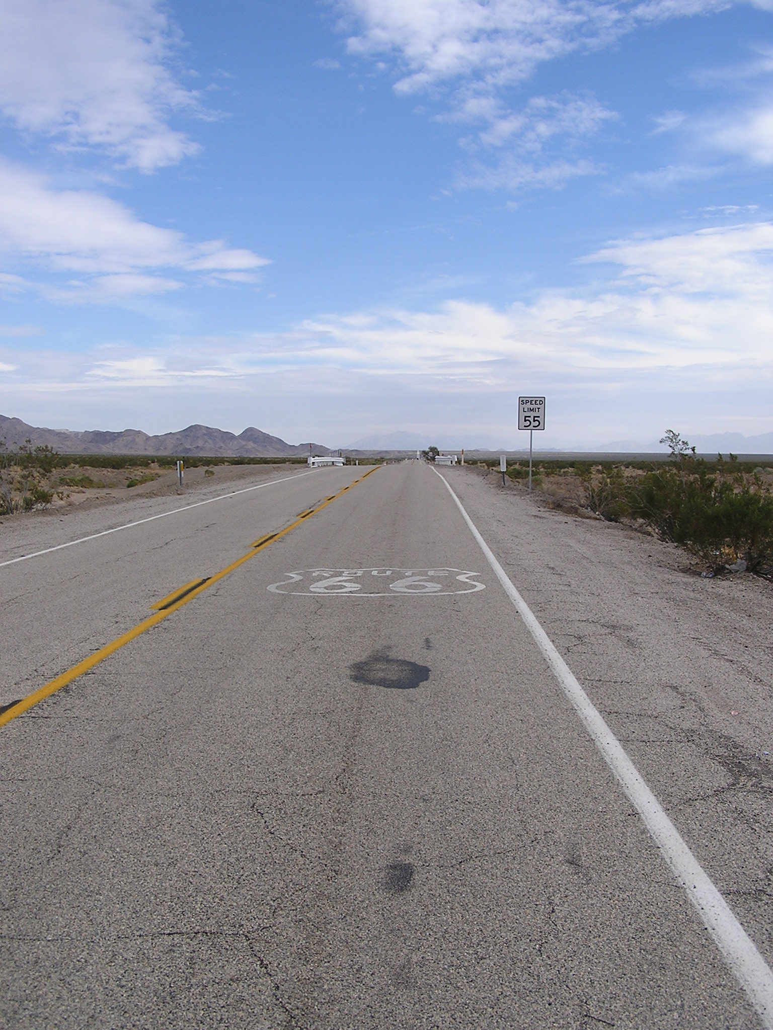 Historic Route 66 — heading out of Amboy, in the Mojave Desert, California.